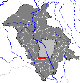 This map shows the area of the Gemeinde (municipality) Seiersberg in the Bezirk (district) Graz-Umgebung, Styria, Austria.